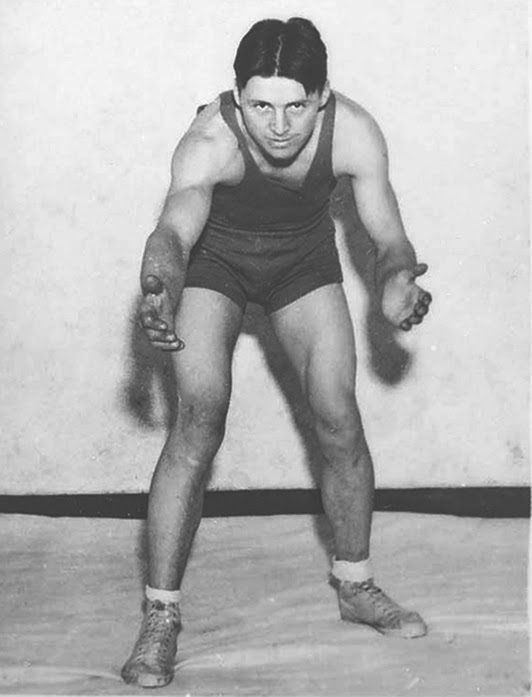 Future Professor and Nobel Laureate Norman Borlaug wrestling at university.